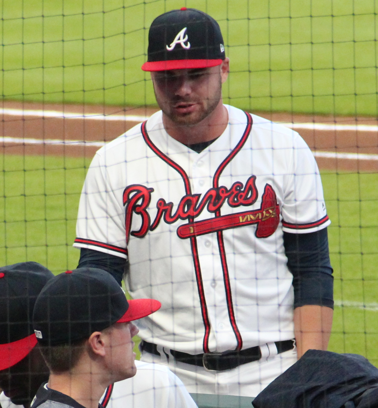 Bryse Wilson in dugout